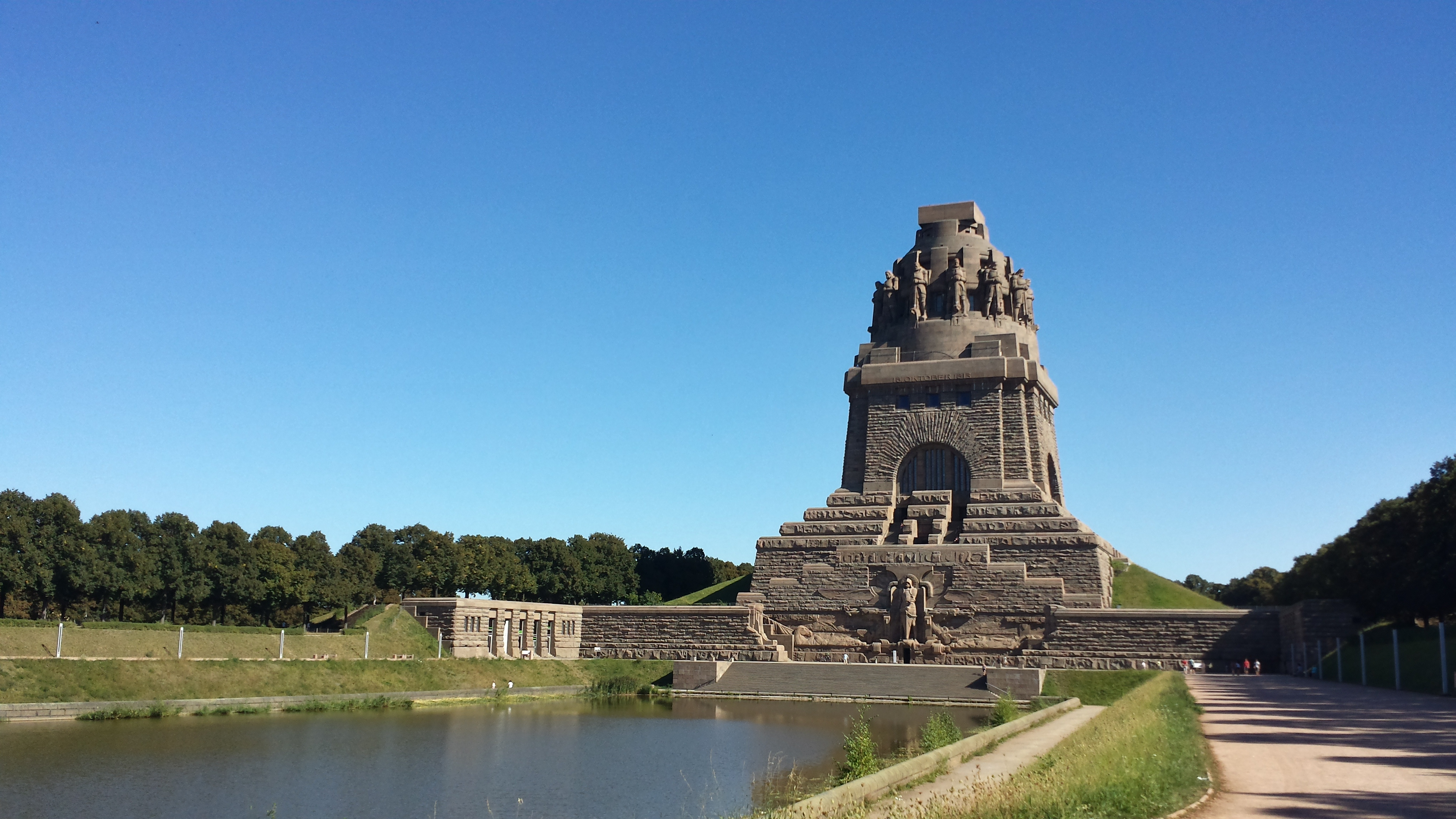 The Battle of Leipzig or Battle of the Nations (Russian: Битва народов, Bitva narodov